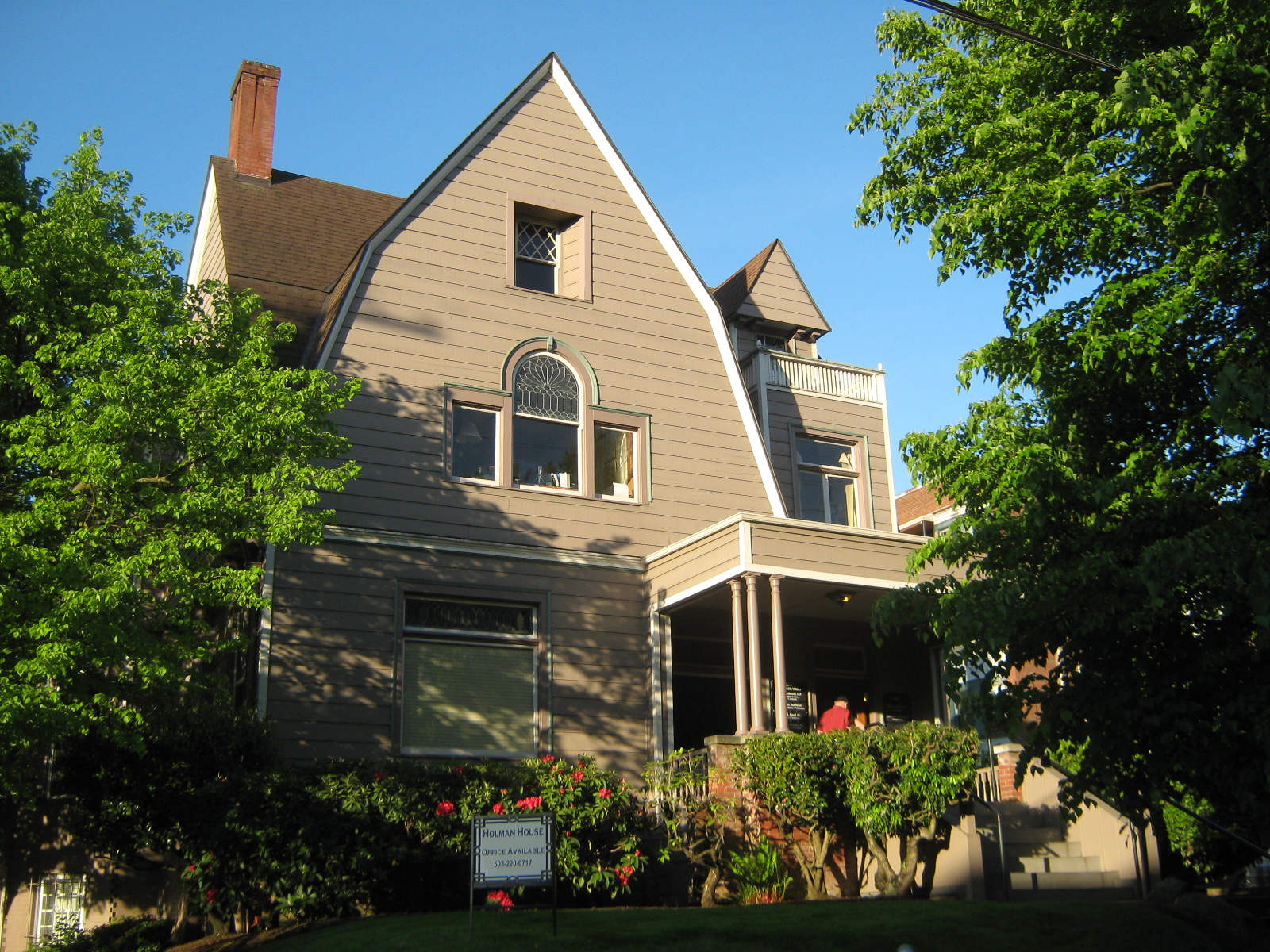 Frederick V. Holman House, in Portland, Oregon, United States. Built in 1892 and designed by Edgar M. Lazarus